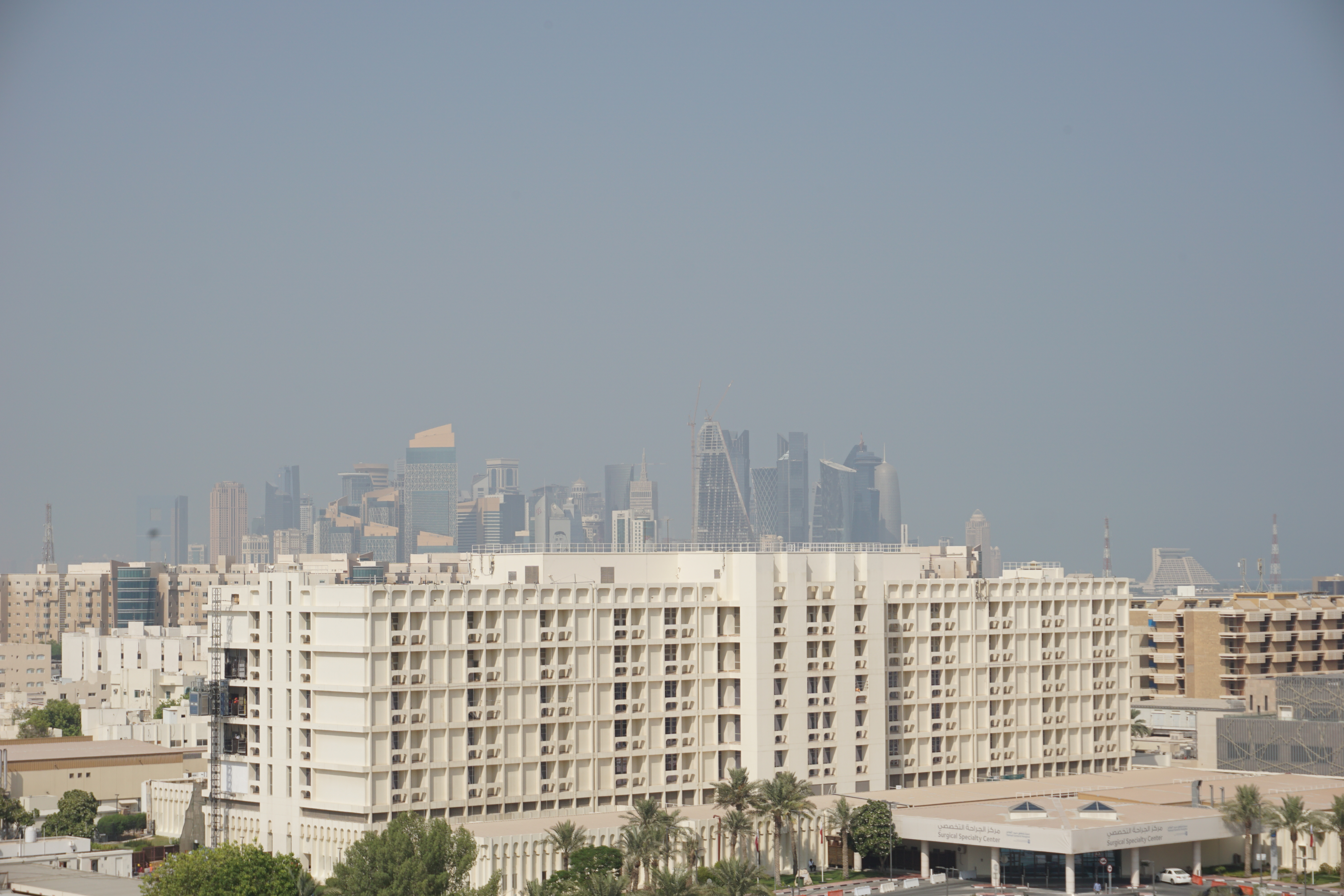 Surgical Specialty Center in the Hamad Medical City district of Doha, Qatar in 2019.